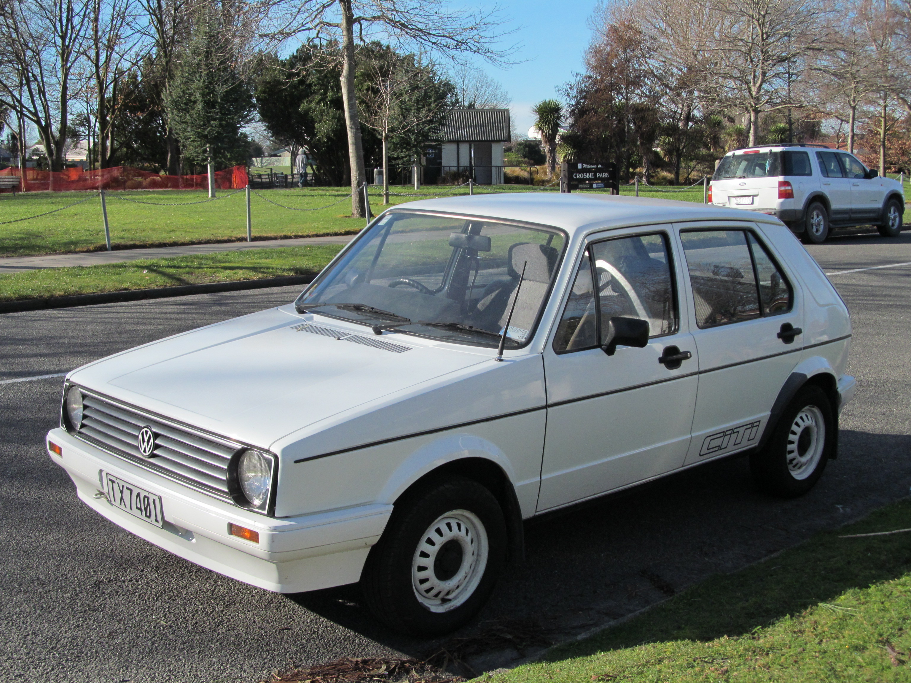 TX7401 I've been after this car for ages - I first saw it late at night about a year ago on the move, then six months ago also on the move and finally last month near my house. I quite like the look of these, but only a few have been brought over from South Africa like this one.